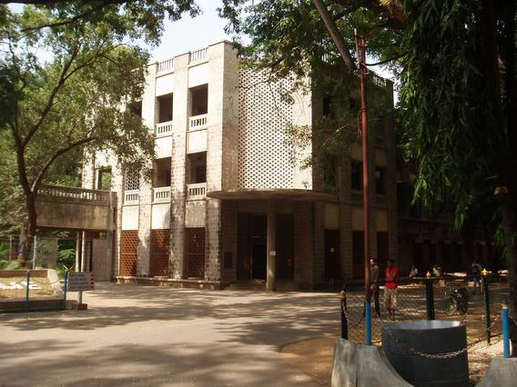 Andhra Loyola College north block